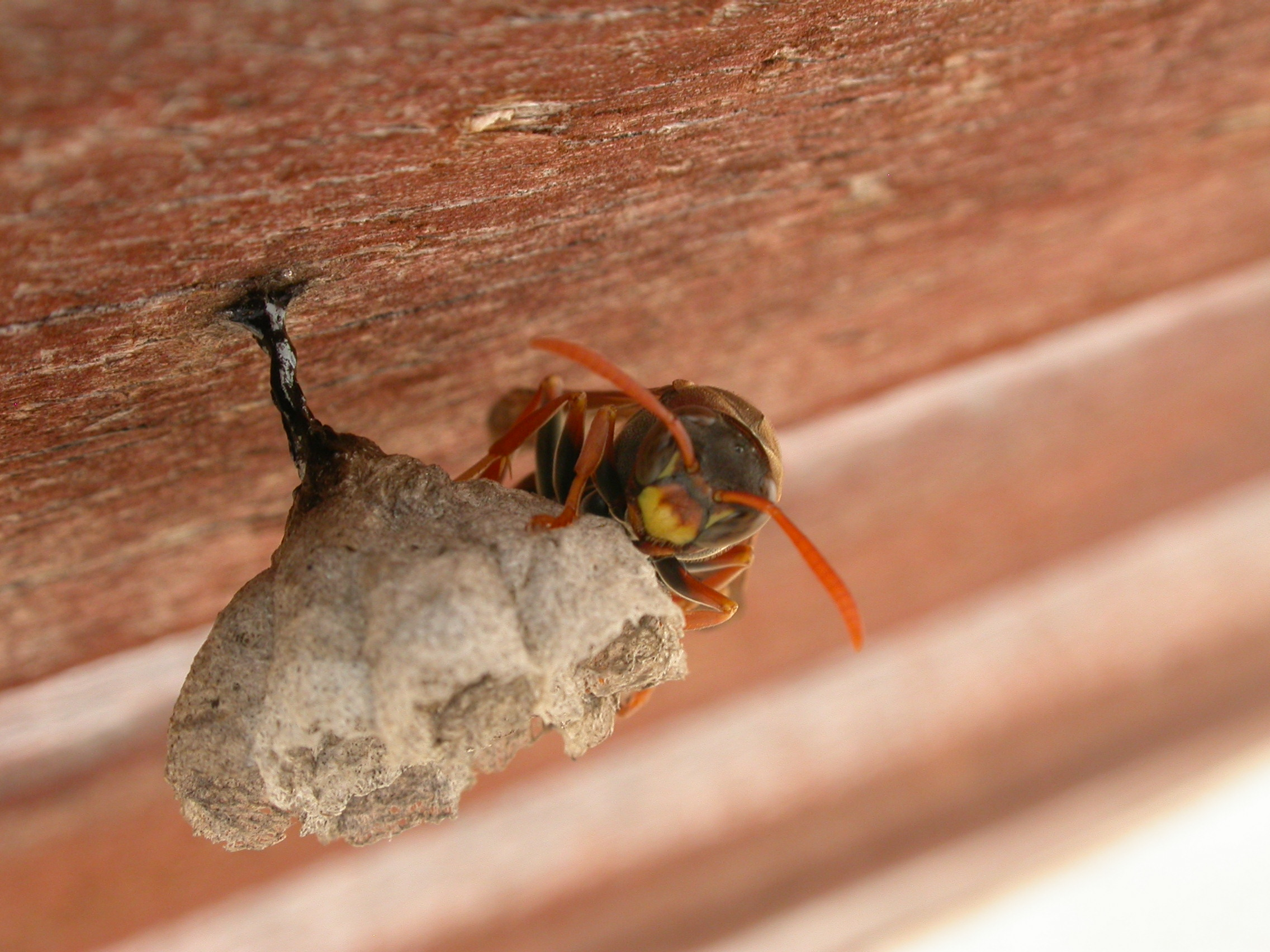 Showing a Polistes humilis and nest.